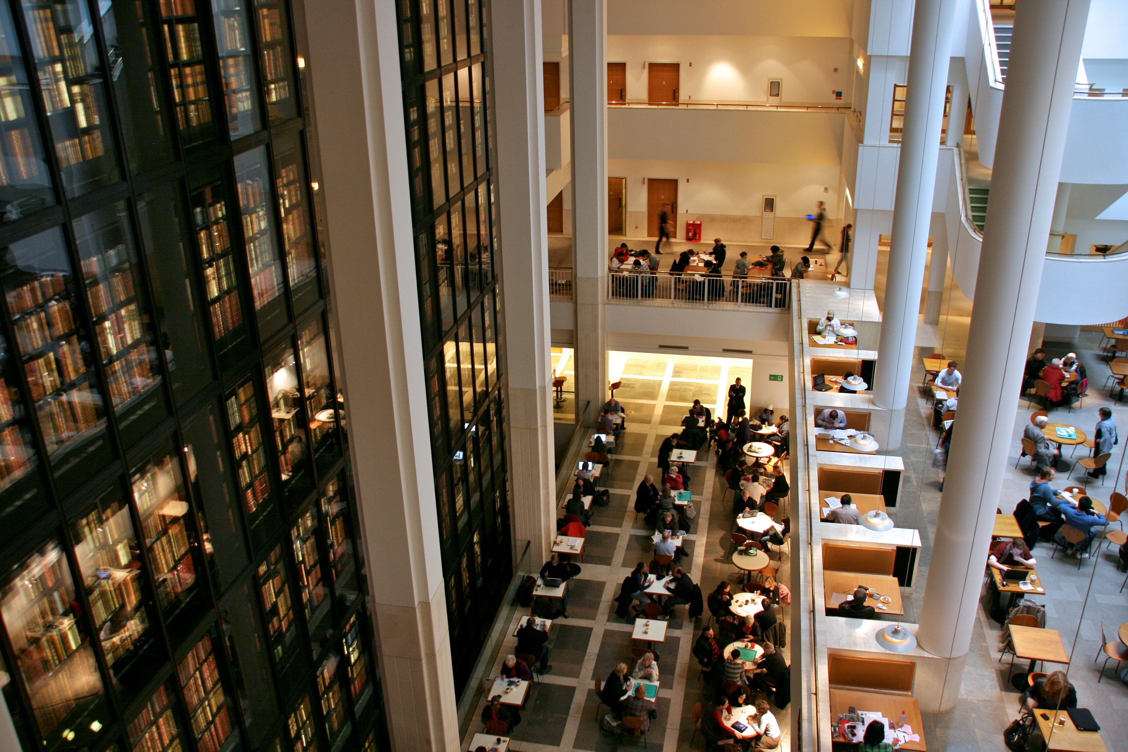 View of the King's Library at the British Library. Taken during the wmuk:Editathon, British Library.